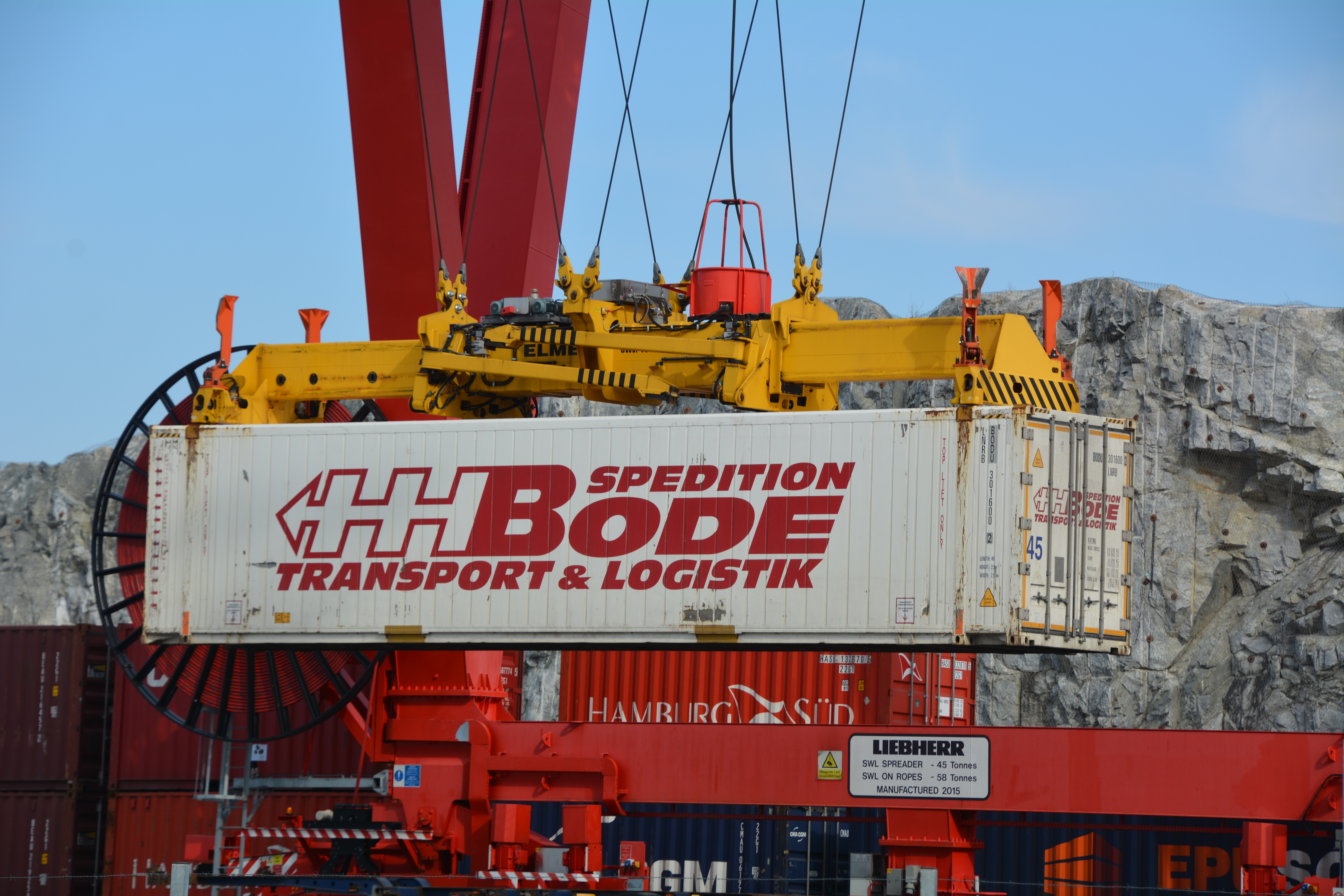 45 ISOContainer lifted by a spreader by a Gantry crane at Kombiterminal Stockholm Nord